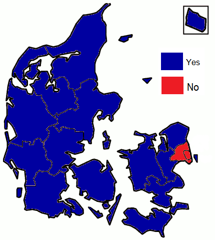 Danish Maastricht Treaty referendum results by county, 1992